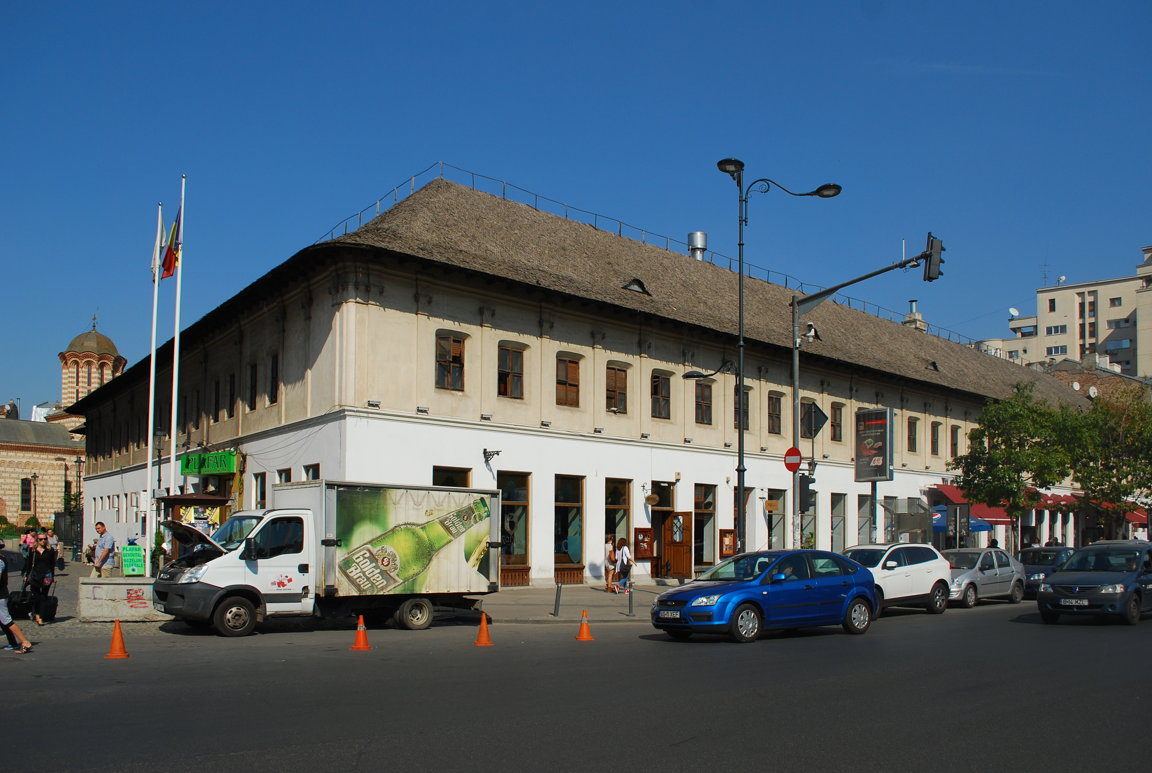 Manuc's Inn in Bucharest, RomaniaRomână: Hanul Manuc din București, România